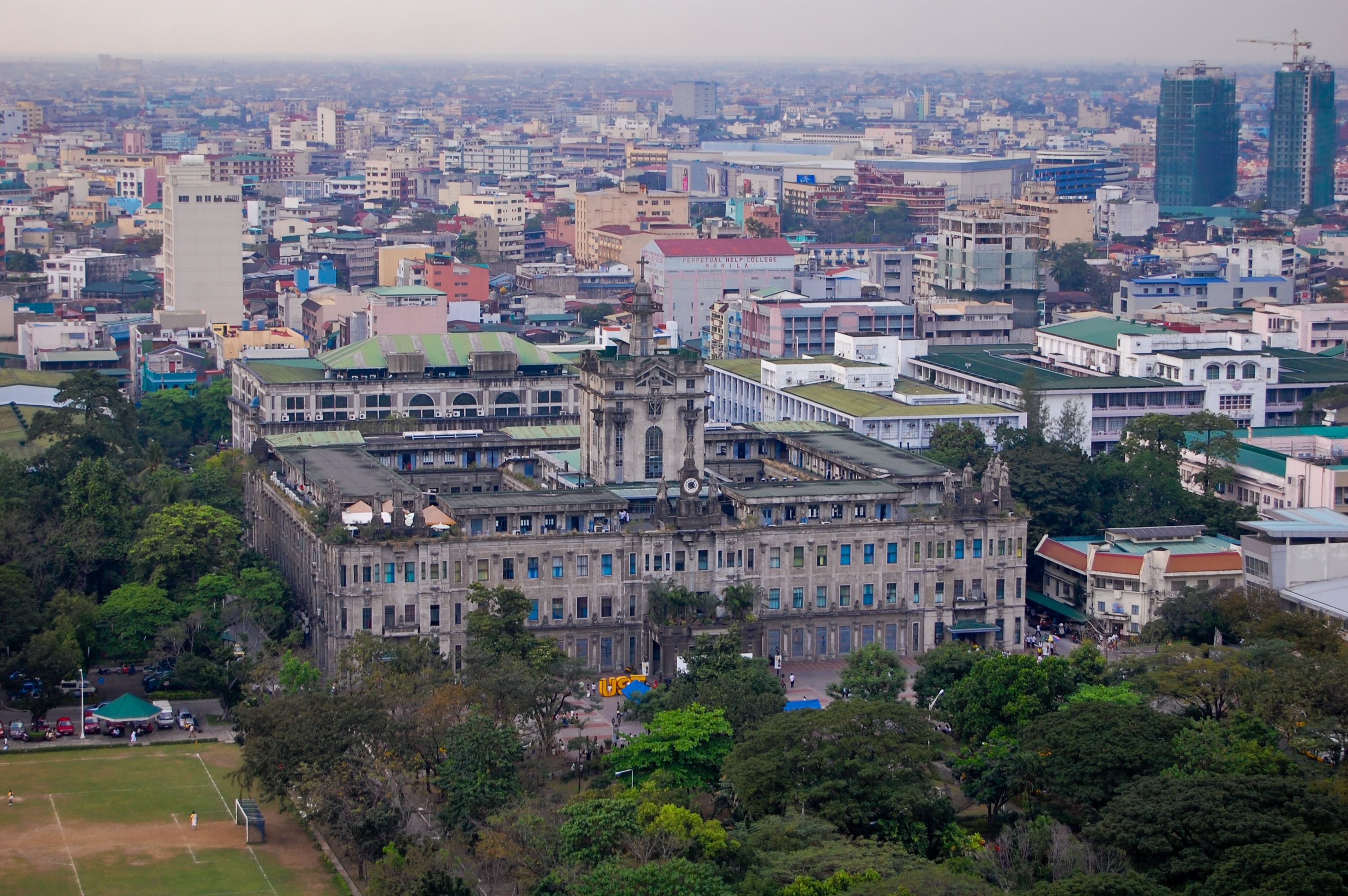 The University of Santo Tomas "Main Building", in central Manila. View from University Tower, Philippines. 2008